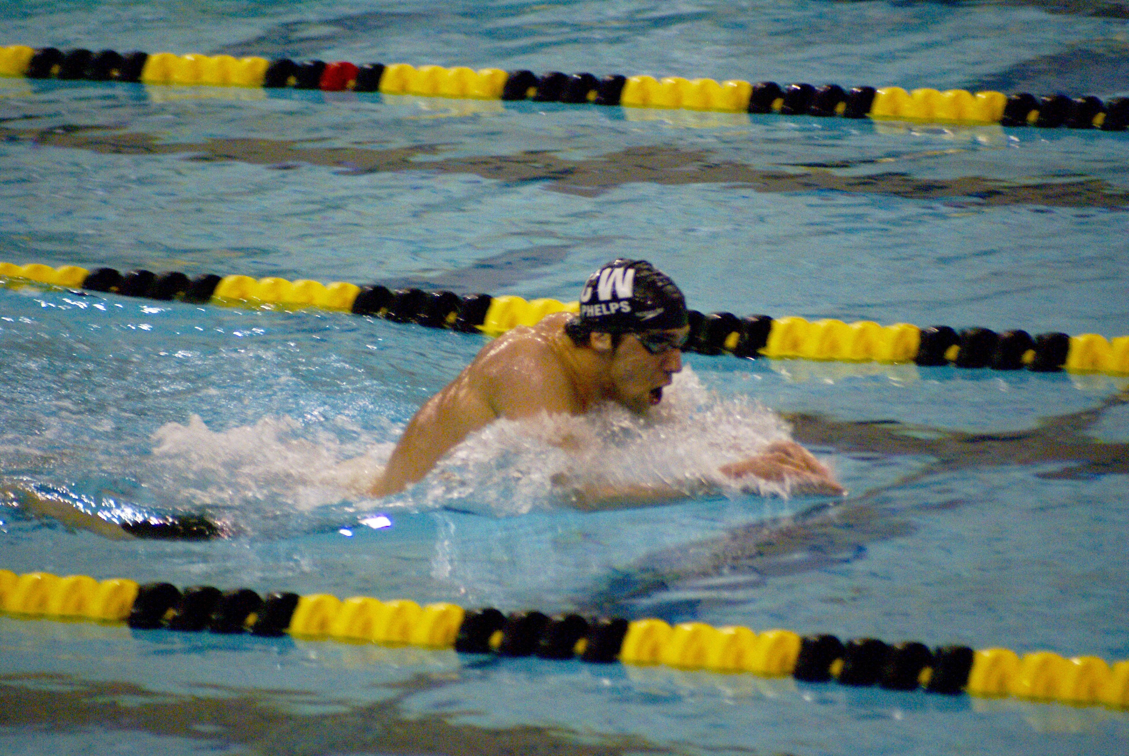 World record holder and olympic gold medalist Michael Phelps in the 400 IM